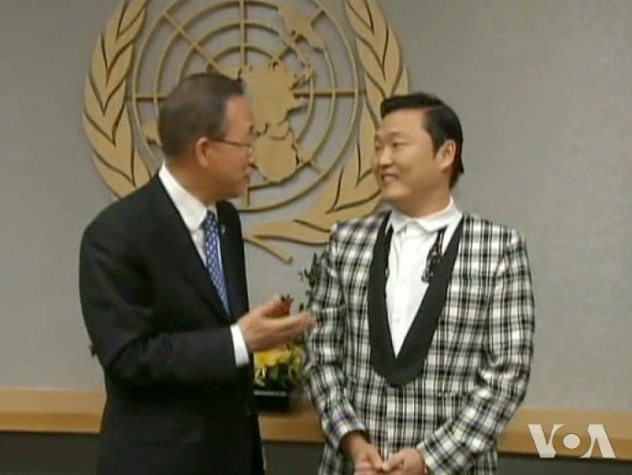 Psy meets UN Secretary General Ban Ki-Moon